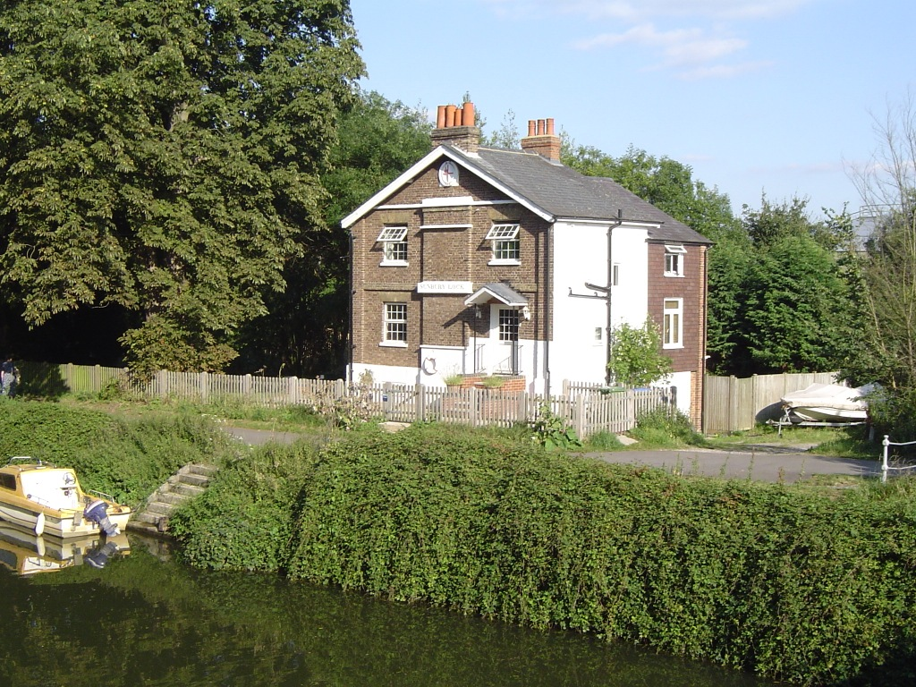 Sunbury Lock Ait, River Thames - view of the lock cut and the old lock house from narrow Sunbury Lock Ait